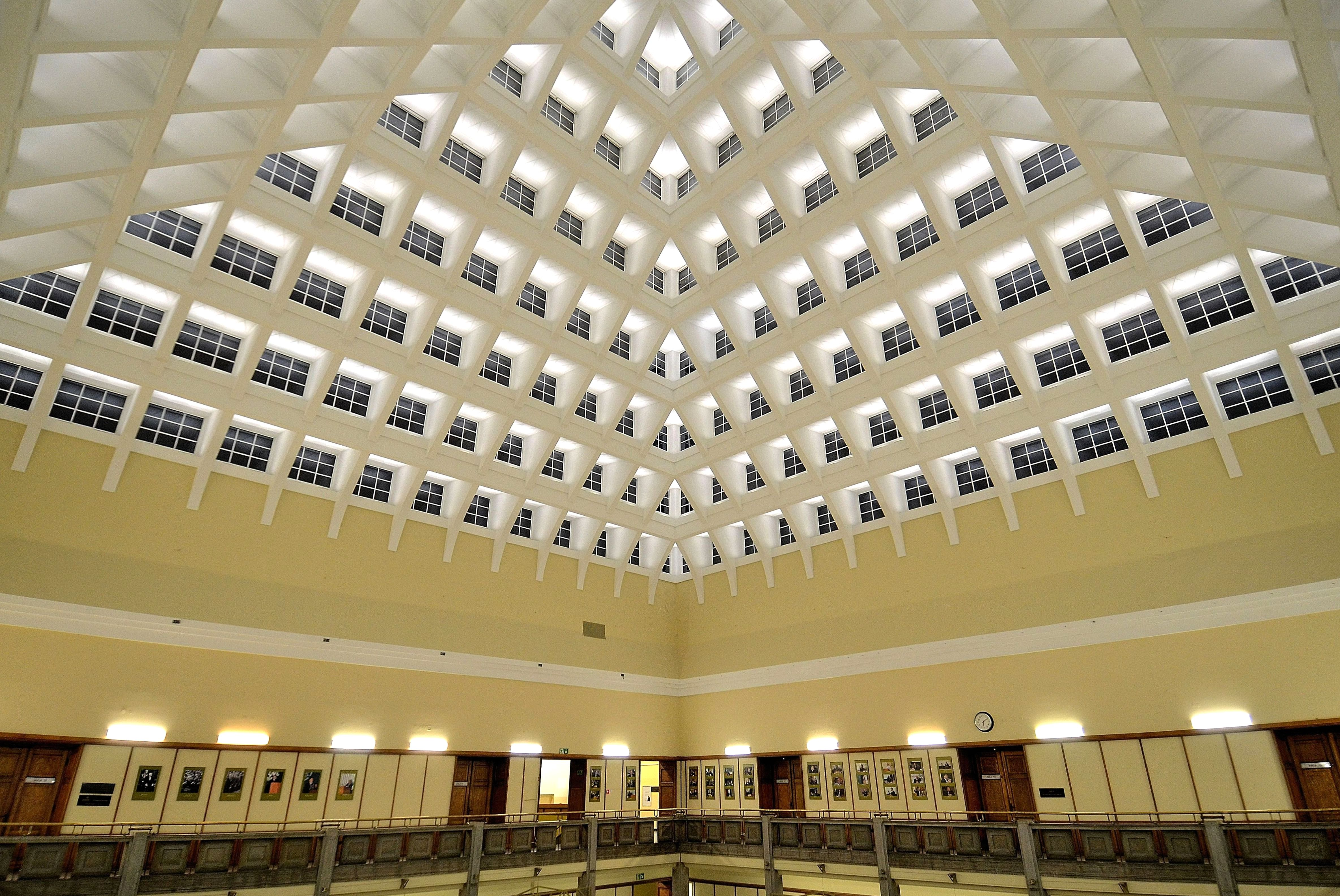 Parachute Hall in the main building of the Warsaw School of Economics